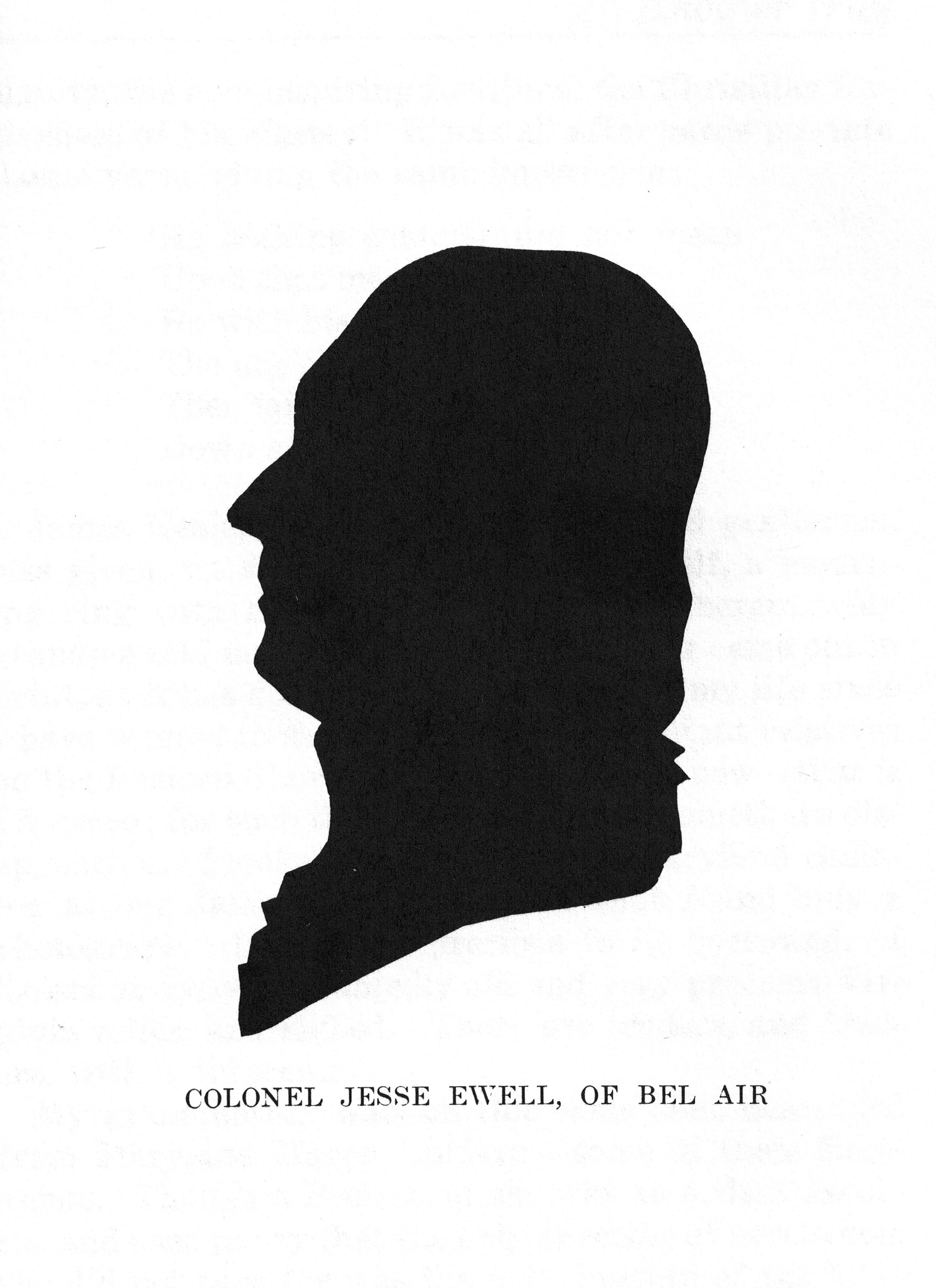 Silhouette of Colonel Jesse Ewell (1743-1805), the master of Bel Air Plantation in Woodbridge, Virginia